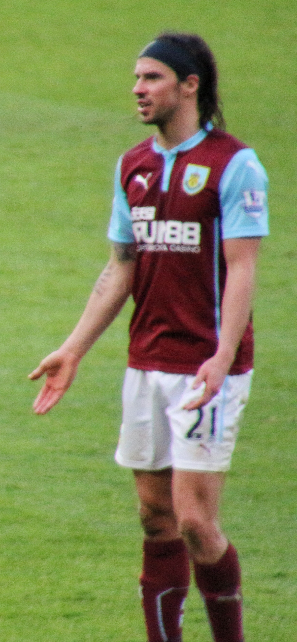 Chelsea 1 Burnley 1